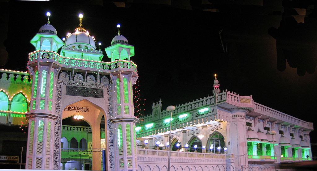 Gharib Nawaz Mosque or Masjid Gharib Nawaz. Its a Mosque in Mominpura, Nagpur. The Mosque named on Hadhrat Khwaja Moinuddin Chishti (R.A). The Dome of Mosque was look like the Shrine of Khwaja Gharib Nawaz (R.A). [edit] External links